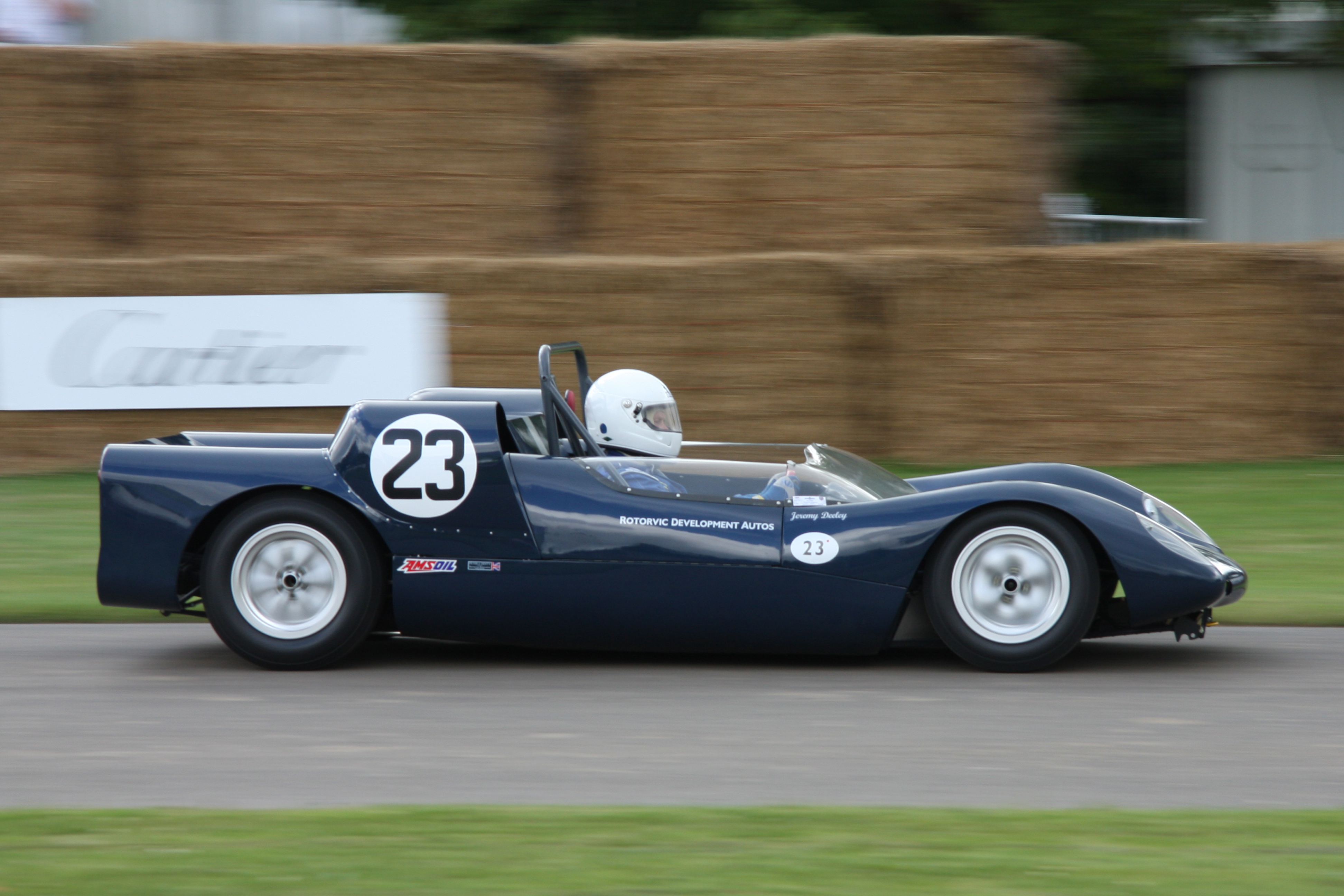 Built 1965. 1.5 litre V12 Six 2-stroke V-twin Ariel Arrow motorcycle engines joined together